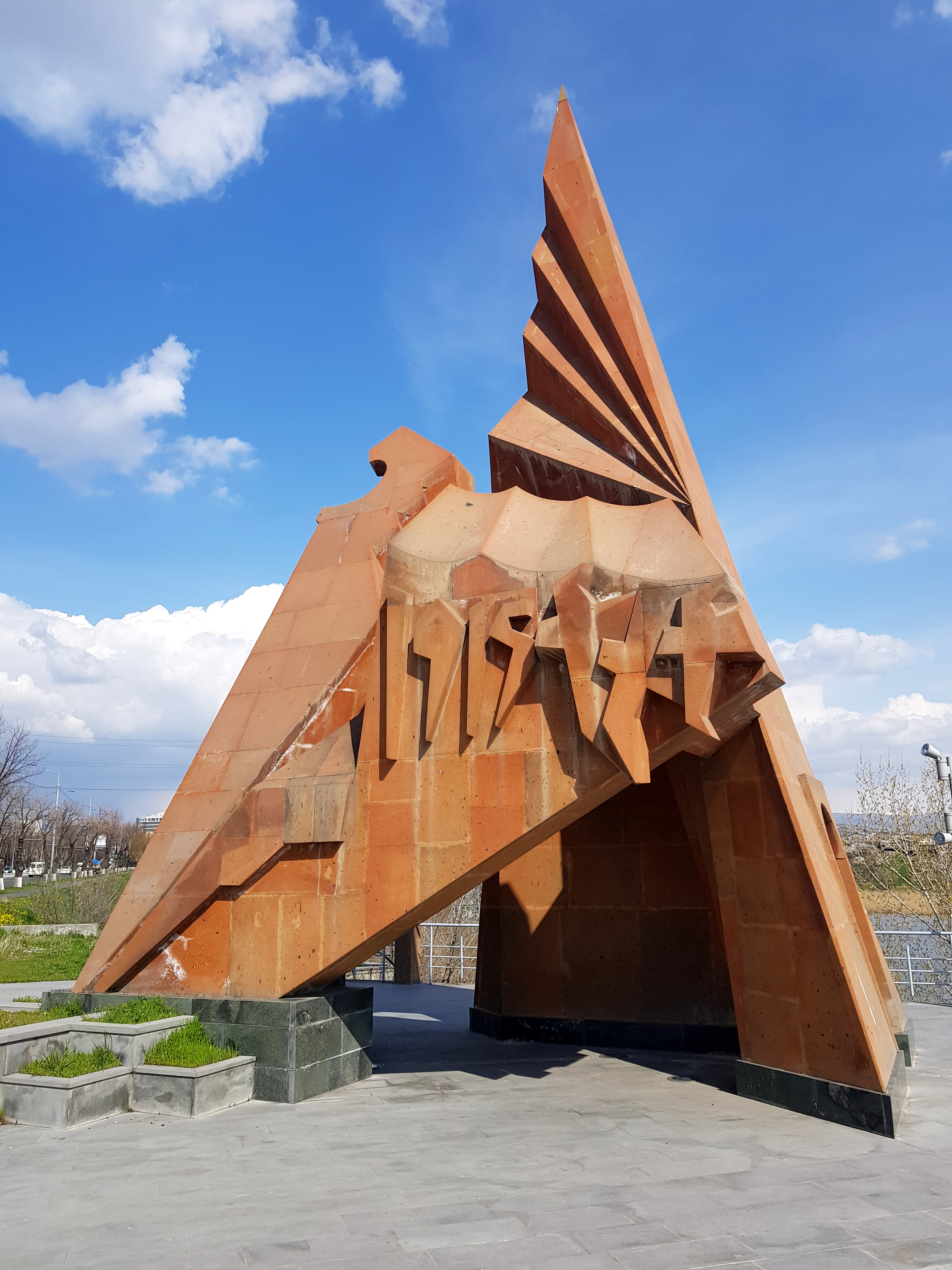 Monument dedicated to the Armenian-Arab friendship